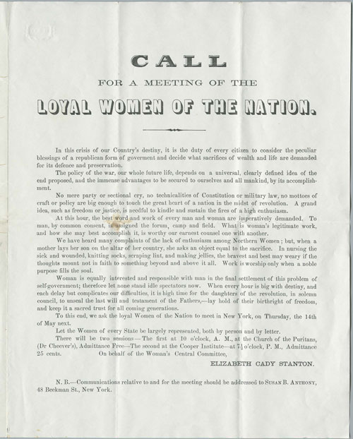 The call to the founding convention of Womans National Loyal League in 1863.